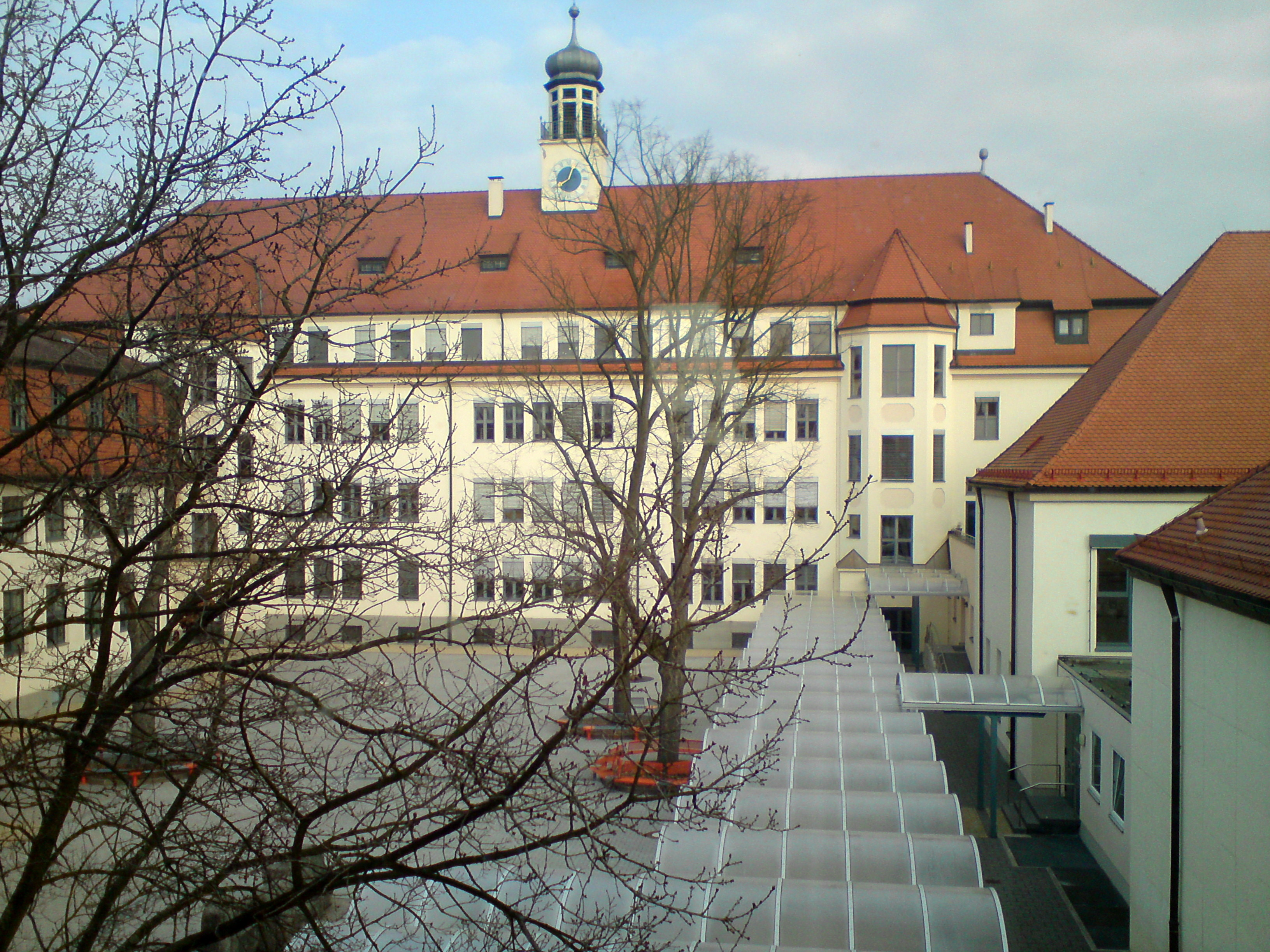 The inner courtyard of the Graf-Münster-Gymnasium in Bayreuth. In front the main building.